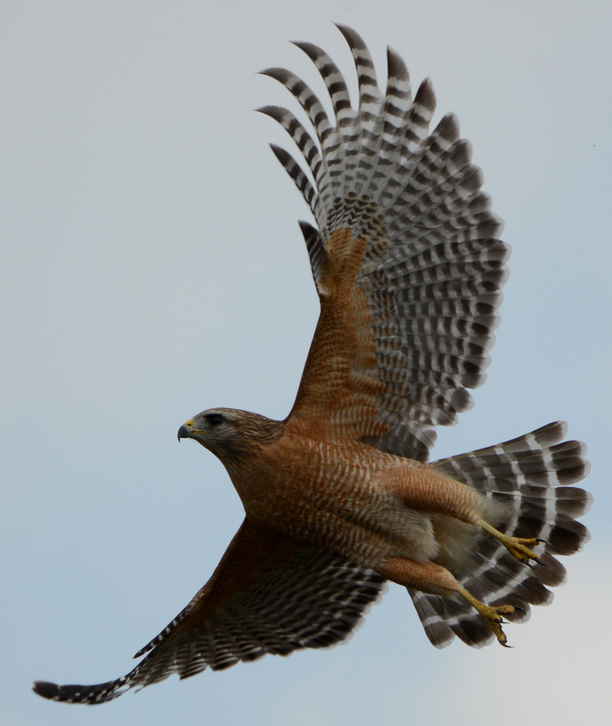 Red-shouldered hawk taking flight at Green Cay Nature Center